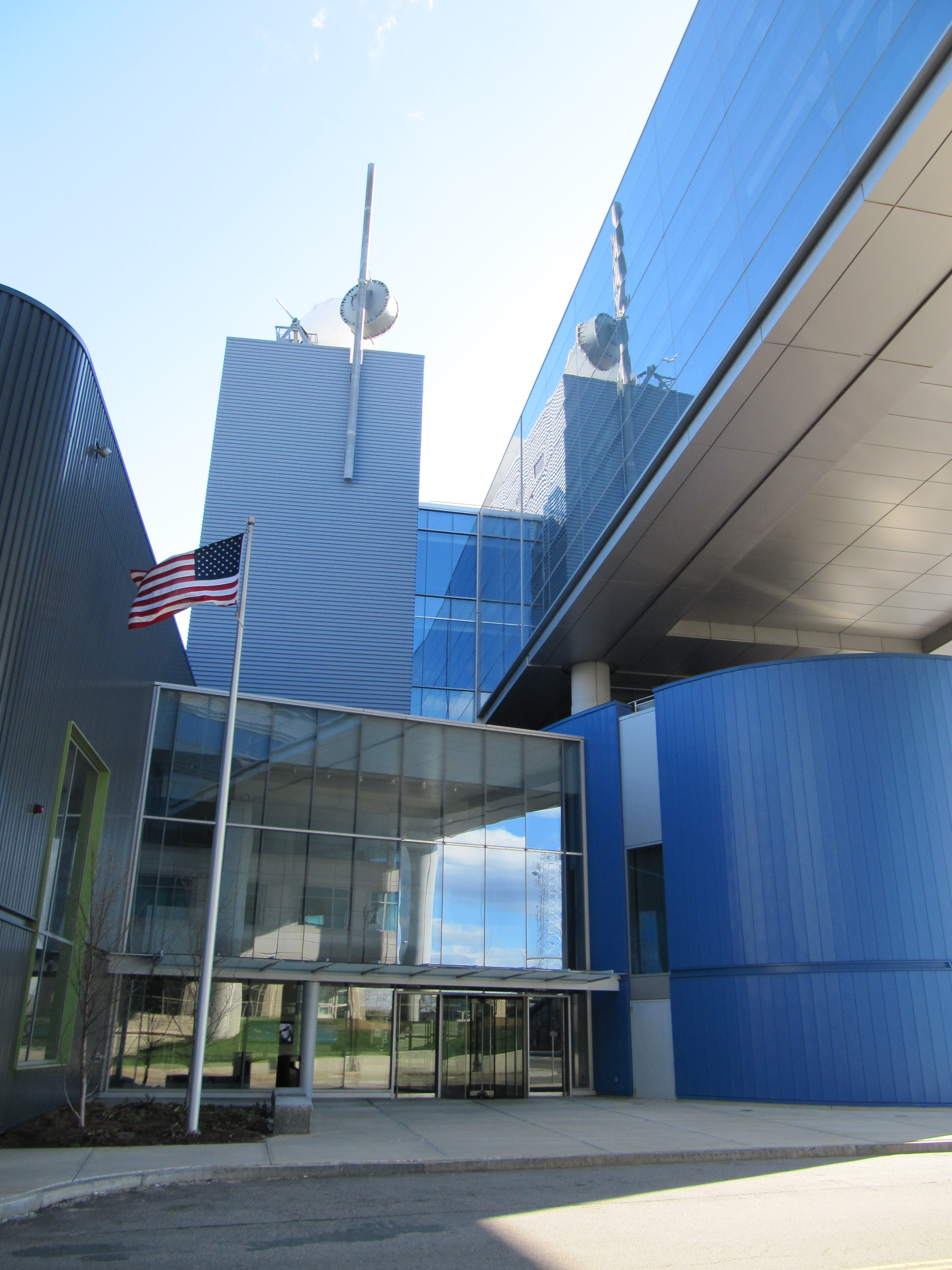 WGBH studio complex, 1 Guest Street, Brighton/Boston. Entrance on Guest Street